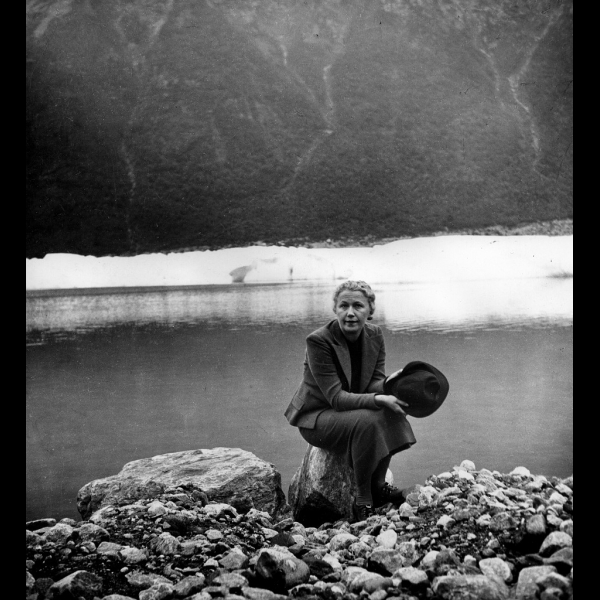 Photograph of Olga Scheinpflugová (1902-1968), Czech actress and writer, at a fjord.